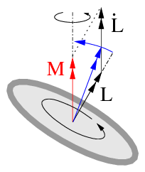 The gyroscopic effect forces the angular momentum to approach an applied moment.